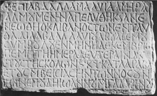 A Greek inscription on a marble slab (50 x 80 cm) from the Roman-era baths at the site of Hammat Gader in northern Israel. The inscription is the only known epigraphic attestation of Umayyad Caliph Mu'awiya I in the region of Syria, the province which he governed from 639 until 661 and which served as the metropolis of his caliphate from 661 until his death in 680. The inscription, which begins with the symbol of a cross, translates in English as: In the days of Abd Allah ("Servant of God") Mu'awiya, the commander of the faithful, the hot baths of the people there were saved and rebuilt by Abd Allah son of Abuasemos (Abu Hashem?) the Counsellor, on the fifth of the month of December, the second day of the 6th year of the indiction, in the year 726 of the colony, according to the Arabs the 42nd year, for the healing of the sick, under the care of Joannes, the official of Gadara The years quoted correspond to the year ca. 663 AD